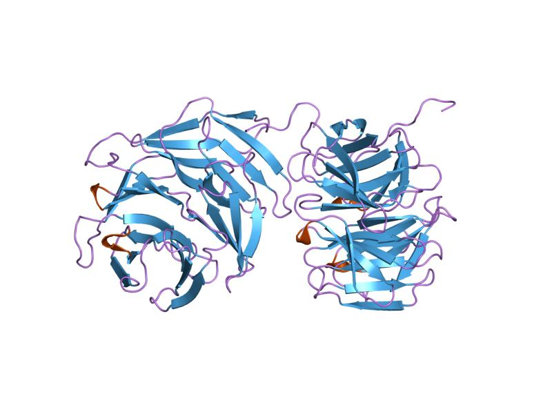 Cartoon representation of the molecular structure of protein registered with 1q7f code.